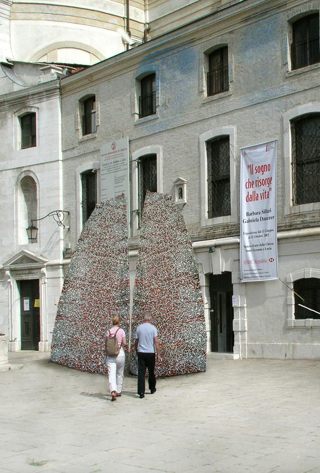 Entrance of the exhibition of Gabriela Dauerer and Barbara Sillari at Venice Biennale 2003.